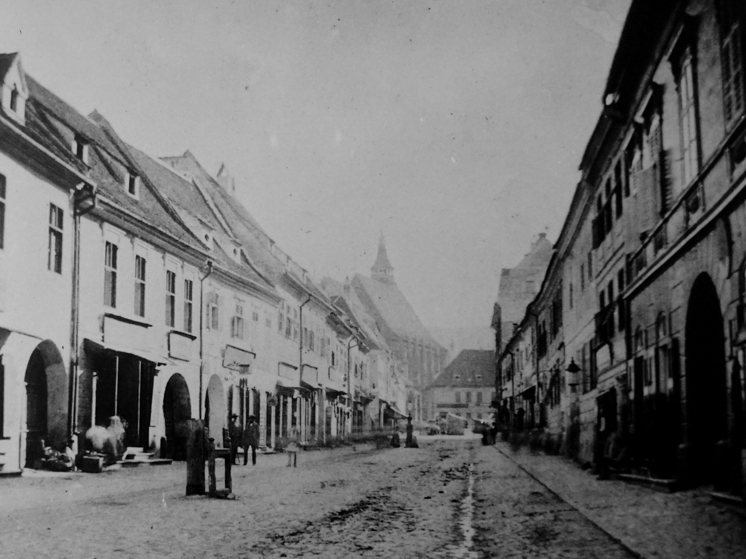 Republicii street in Brasov, photo made by Eduard Fritsch in 1861